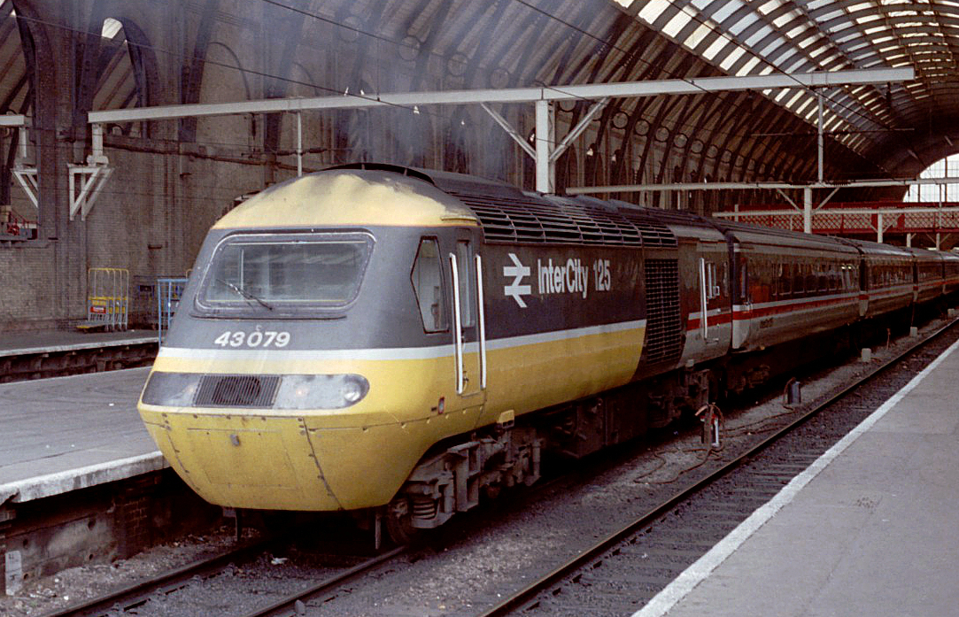 BR HST train 43079 at London Kings Cross (1988).